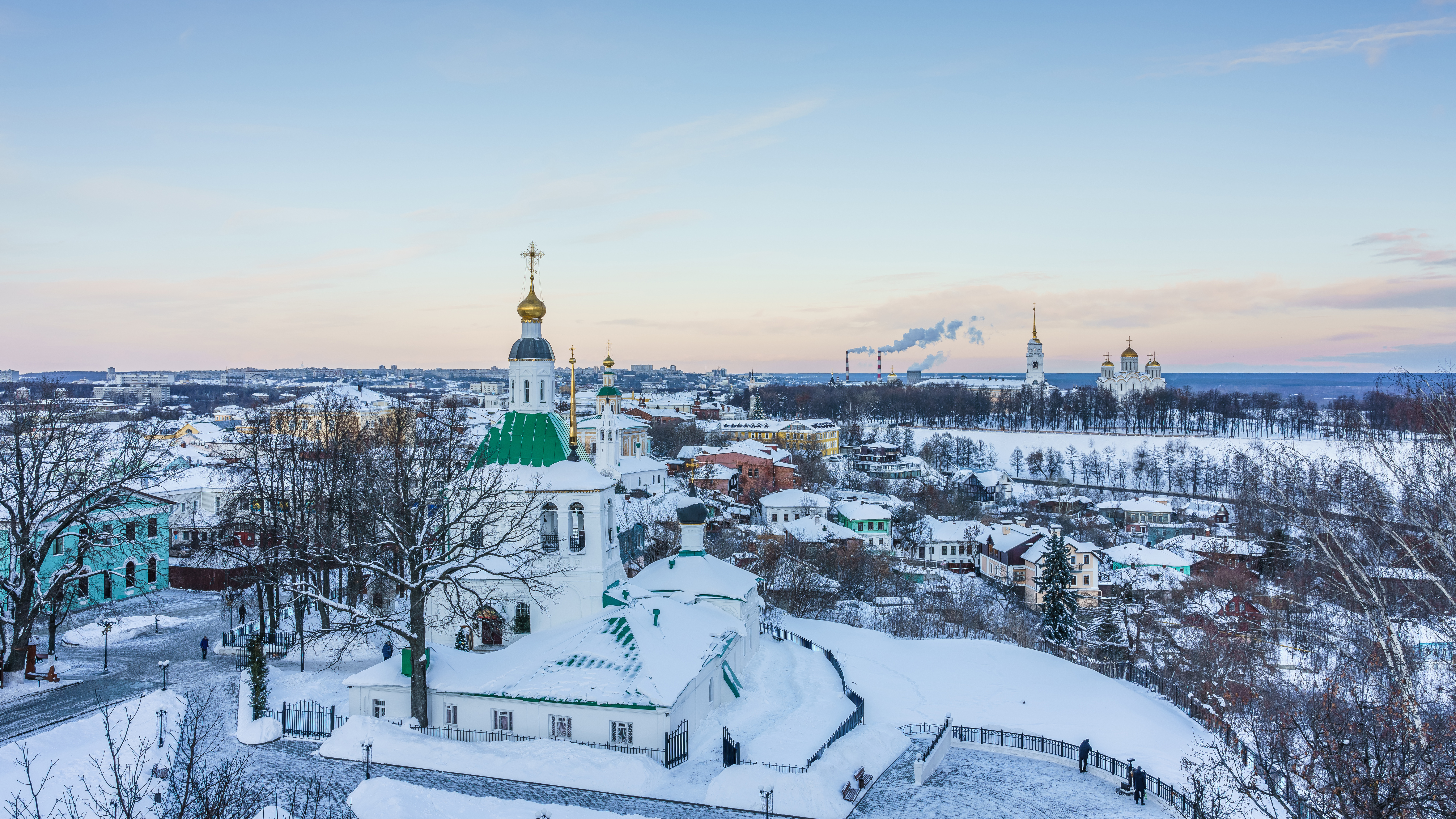 View from the Water Tower in Vladimir, Russia